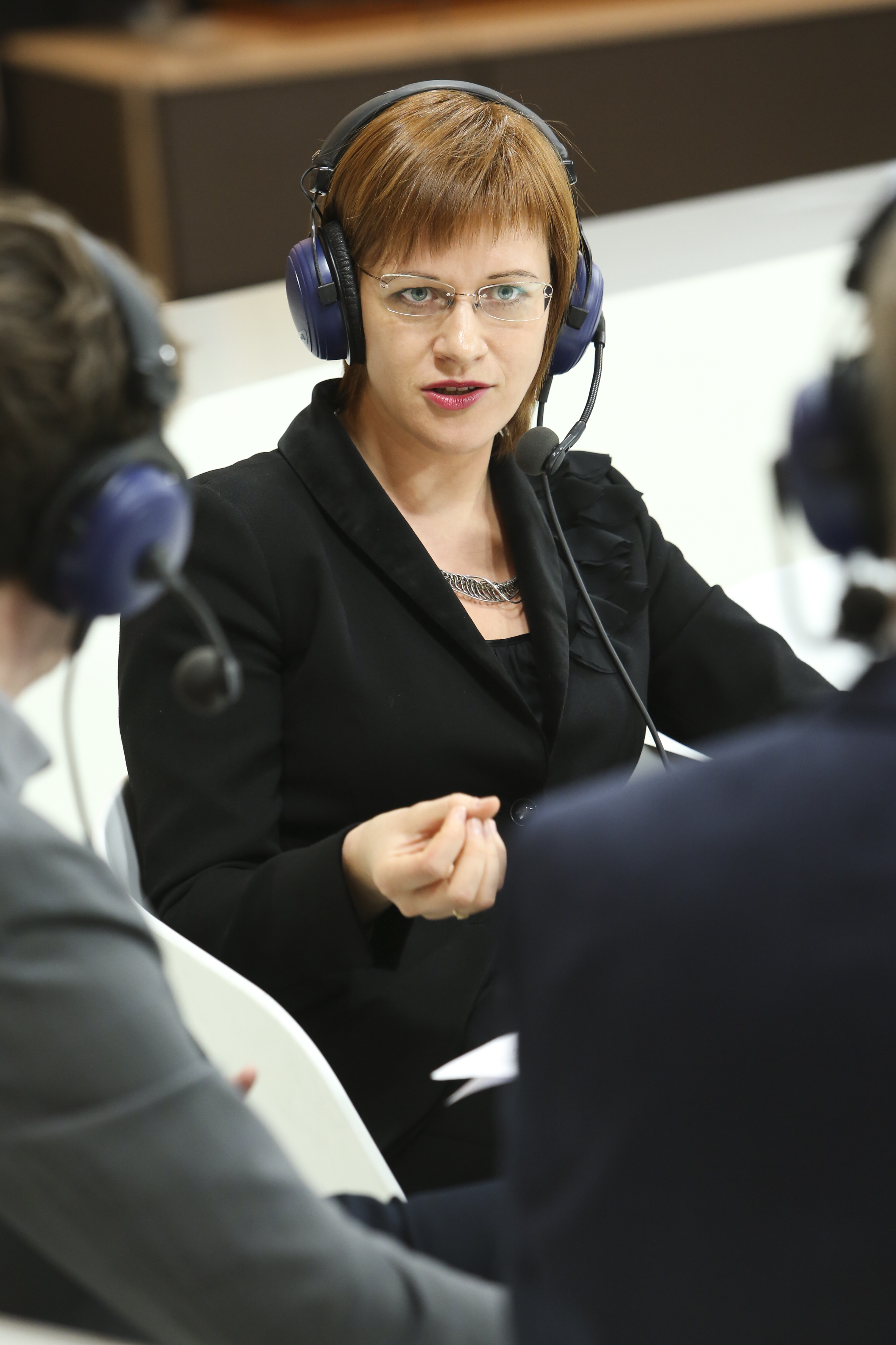 Euranet Plus, the leading radio network for EU news, hosted a Citizens’ Corner debate on the digital rights of EU citizens at the European Parliament in Brussels on January 20. The debate was jointly produced by Euranet Plus and Latvijas Radio, a member of the Euranet Plus network. The bilingual debate was moderated by journalist Artjoms Konohovs of Latvijas Radio (in Latvian) and Brian Maguire of the Euranet Plus News Agency in Brussels (in English). The debate also featured students of the Euranet Plus campus radio network from Poland (Radio Kampus, Warsaw) and Finland (Radio Moreeni, Tampere). Guests: Part 1 of 2 | Latvian | | moderator Artjoms Konohovs | guests: - Krišjanis Karinš, MEP, Latvia, Group of the European People’s Party (Christian Democrats), www, @krisjaniskarins - Roberts Zile, MEP, Latvia, European Conservatives and Reformists Group, www, @robertszile - Zanda Kalnina-Lukaševica, Parliamentary Secretary, Latvian Ministry of Foreign Affairs, @ZKLukasevica Get all the details and the video as well as audio recordings on our dedicated web page at